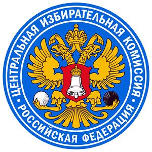 Emblem of Central Election Commission of Russia